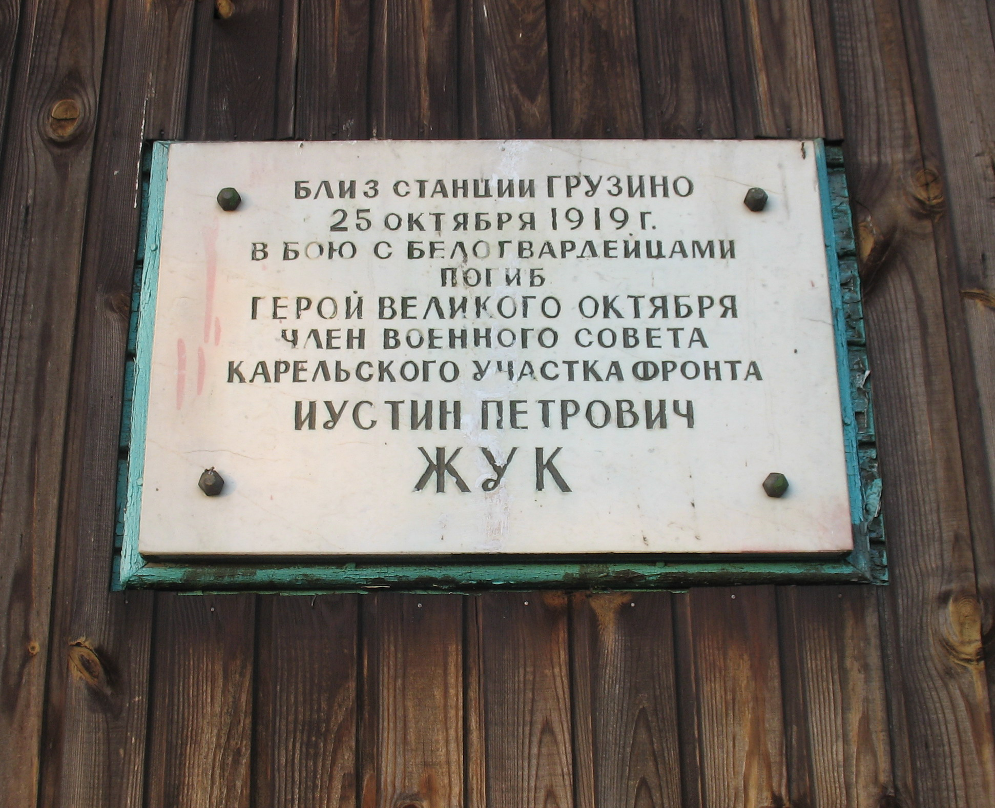 The memorial plaque on the site of Iustin Zhuk's death